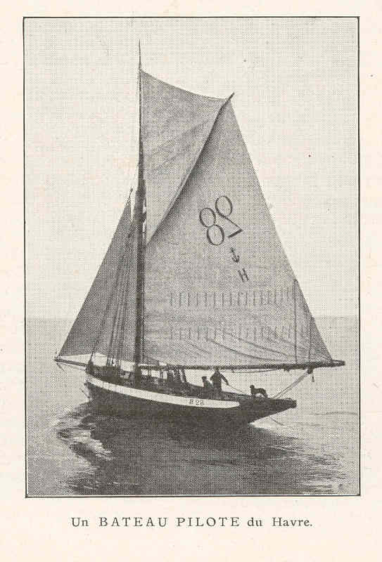 Subject: Sailboats Tag: Vessels